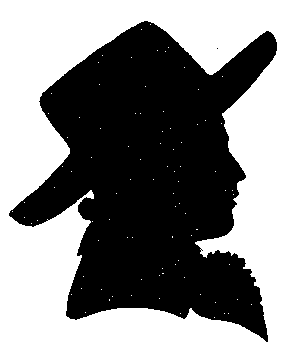 Silhouette (self portrait) of Joseph Martin Kraus as student in Göttingen. From collections of Bezirksmuseum Buchen (Odenwald). Kraus is said to have left around 2000 silhouettes, most of them produced by himself.